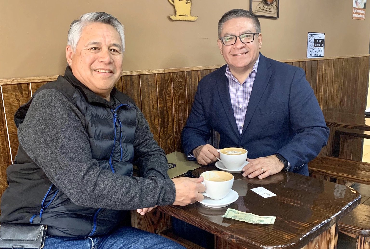 Excellent meeting with Mayor Ariston Julian of Guadalupe to discuss how we can work together on the local and federal level to best reflect #CA24 priorities. Guadalupe is lucky to have such a great leader!